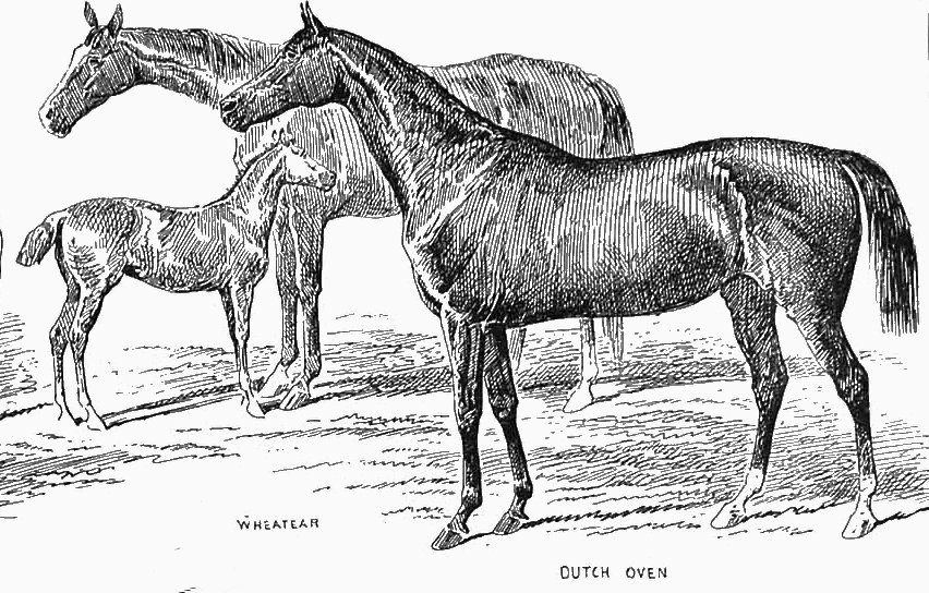 Lord Falmouth's brood mares Dutch Oven and Wheatear at Mereworth Stud in 1884.